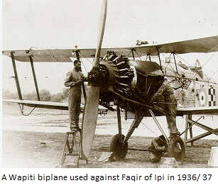 aircraft